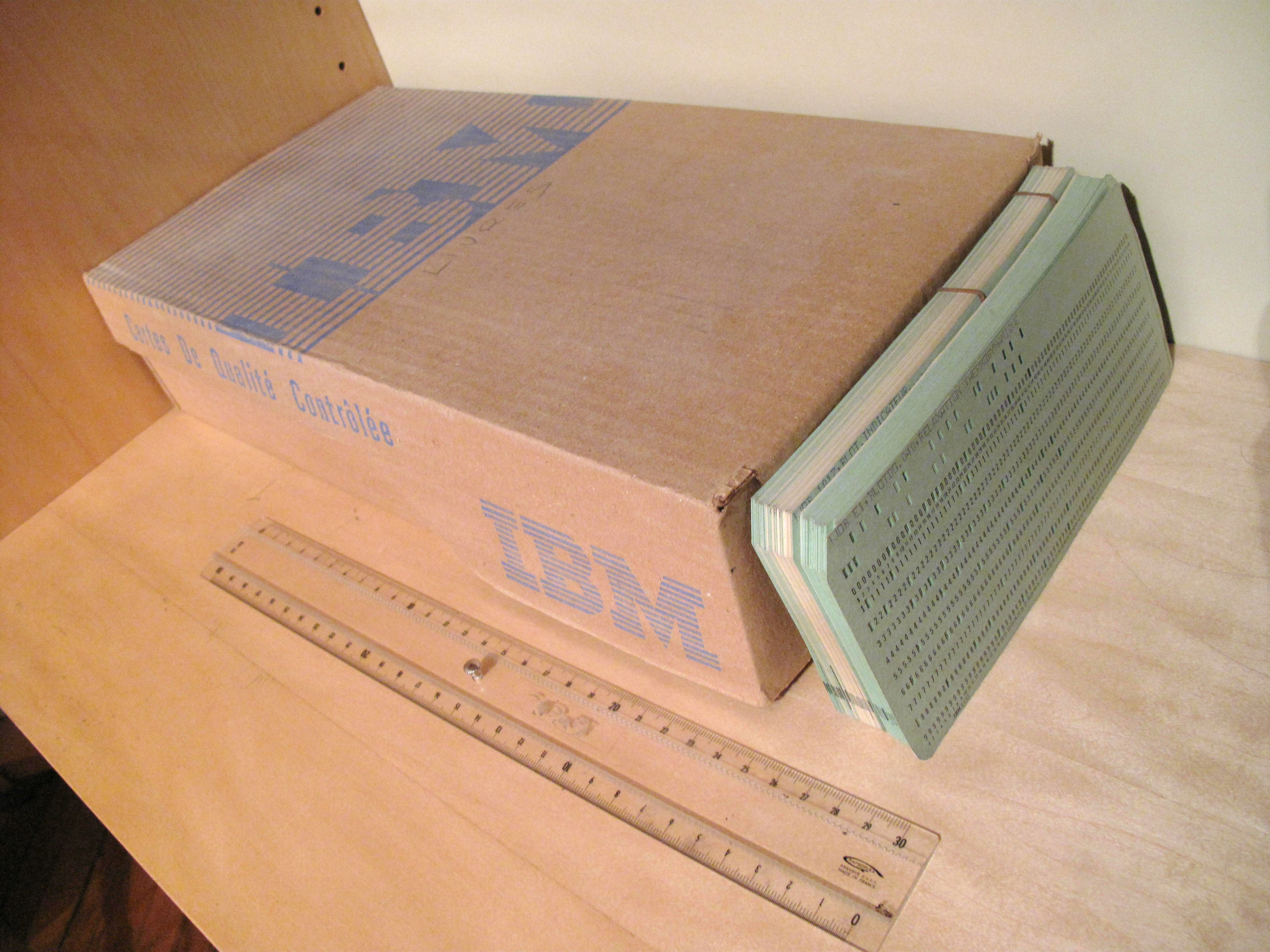 Cardboard box for punch cards. The new cards were sold in these boxes. These boxes were also used to store the punch cards of the programs. The long programs with some thousands of lines of code needed the same number of punched cards. They had to be put in the card reader in the right sort order.